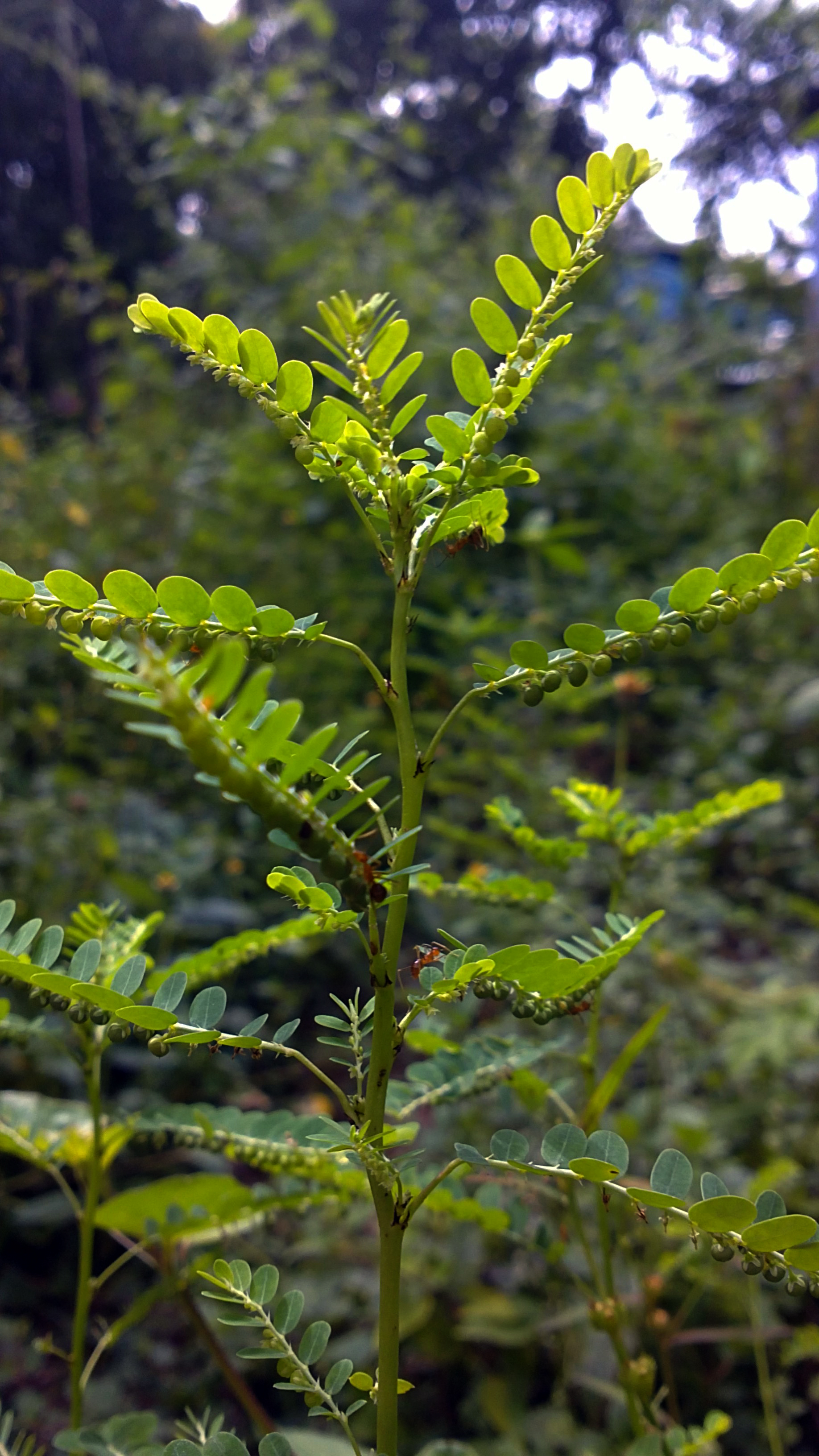 Phyllanthus niruri